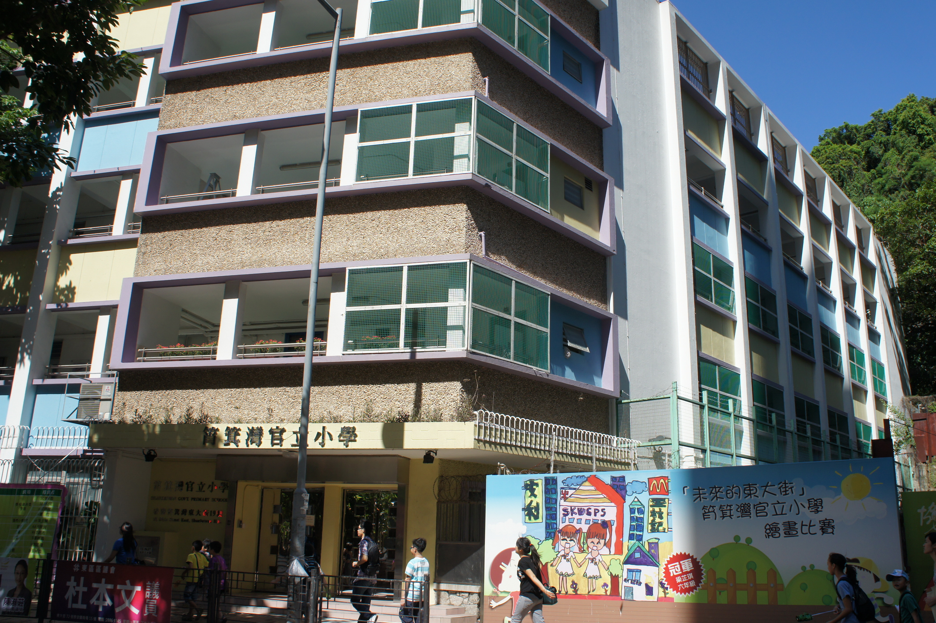 Shau Kei Wan Government Primary School, Hong Kong.